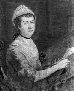 Self Portrait of Mary Morris Knowles, done in Needlepoint